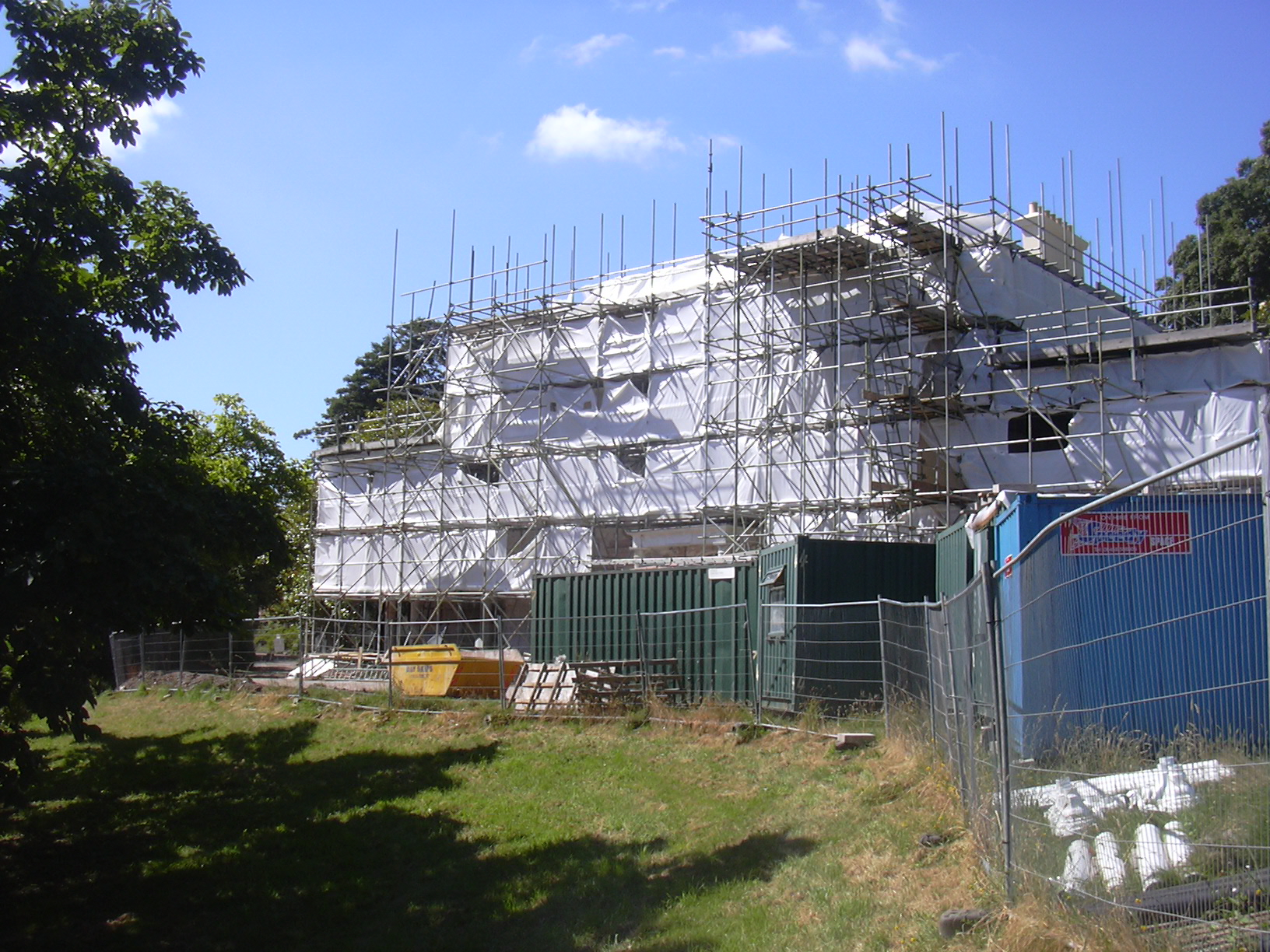 Greenway, former home of Agatha Christie, under restoration by the National Trust, in July 2008.